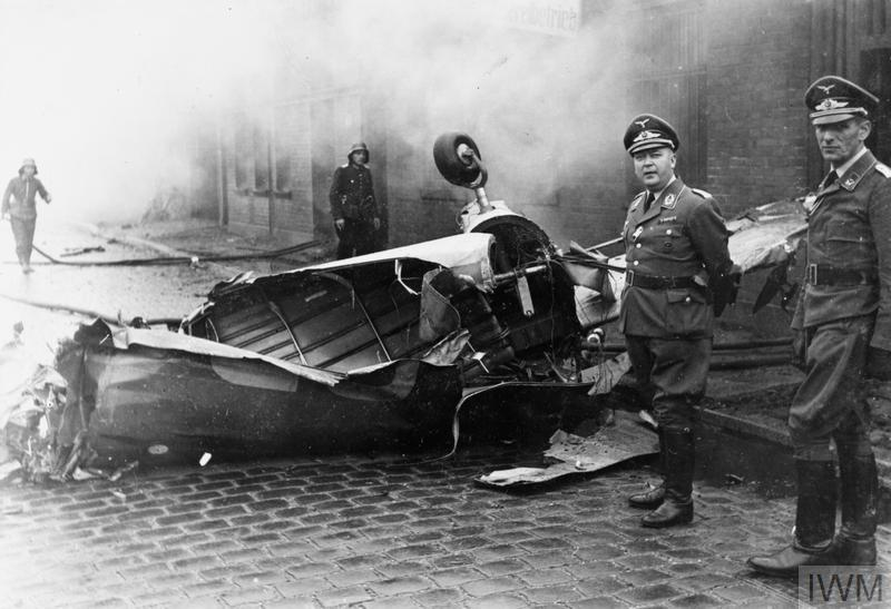 Operation WRECKAGE: low-level daylight attack on targets in Bremen by aircraft of No. 2 Group. Luftwaffe officers stand by part of the wreckage of a Bristol Blenheim Mark IV of No. 105 Squadron RAF in a street in the dock area, while firemen attend to burning buildings beyond. The remains are probably those of Z7426 which was hit by anti-aircraft fire and crashed onto a factory in the target area. The pilot, Sergeant W MacKillop, and his 2 crewmen were all killed.